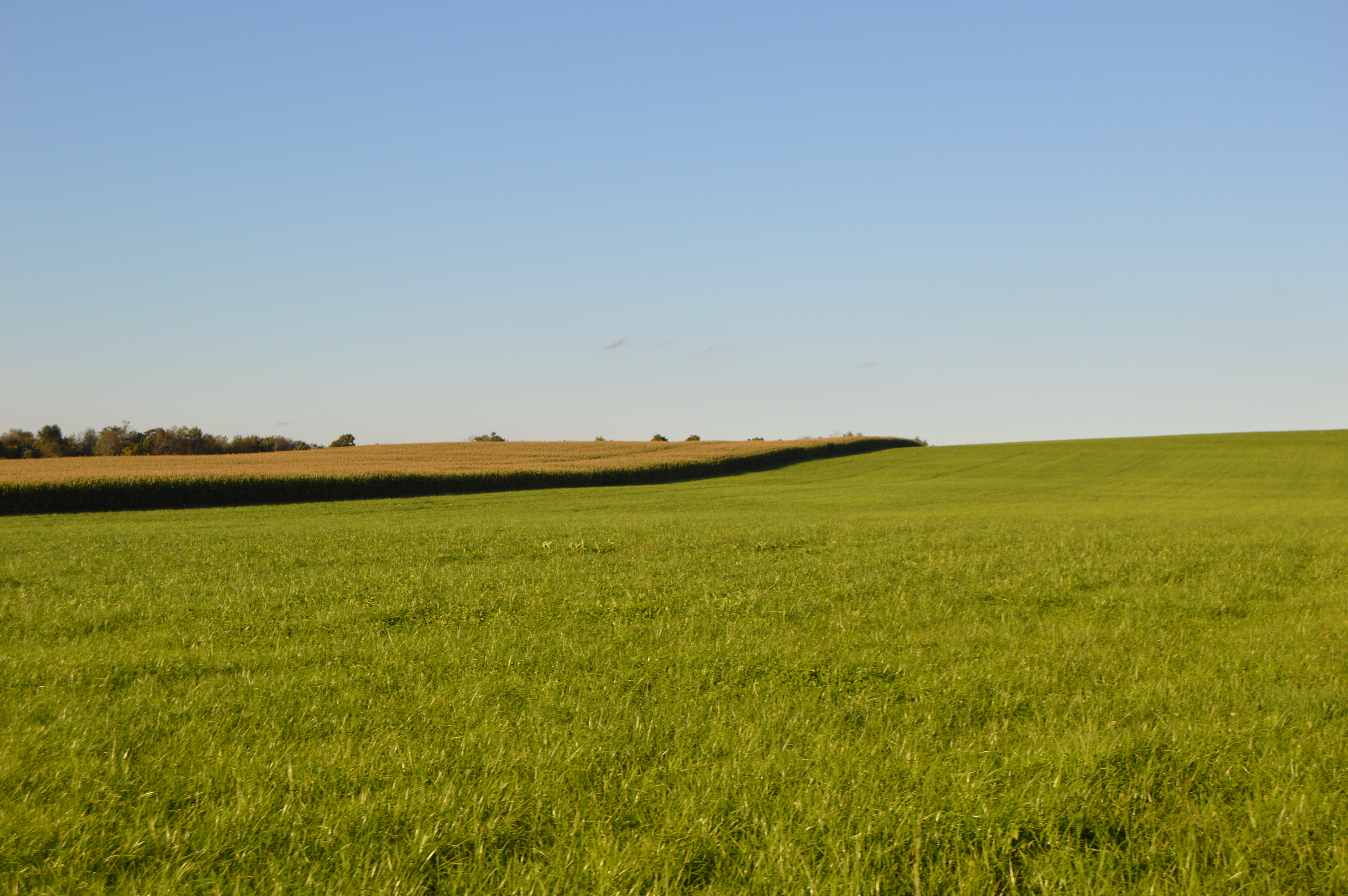 Hay and corn fields on Casselman Road northwest of Casselman in Upper Turkeyfoot Township, Somerset County, Pennsylvania, United States.